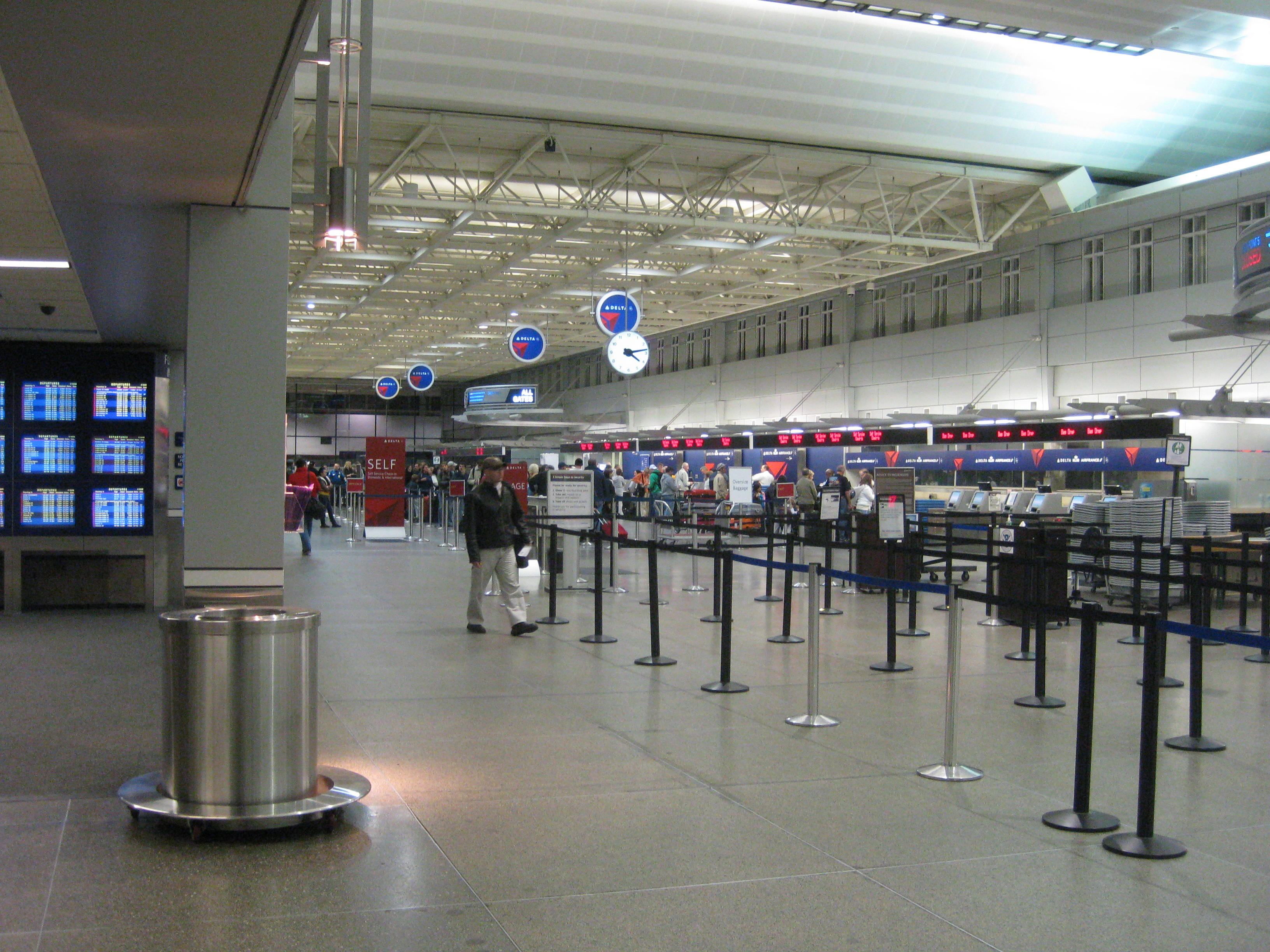 The departures area at Minneapolis-Saint Paul International Airport.